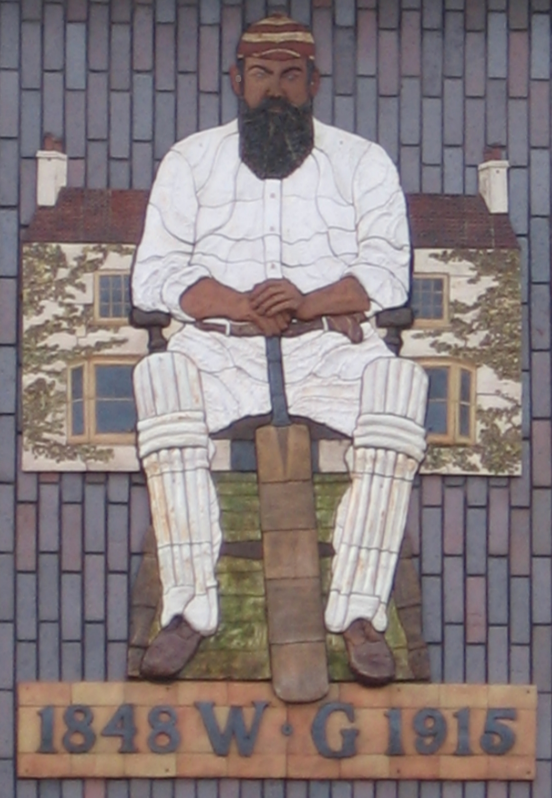 Mural of WG Grace in Downend, South Gloucestershire